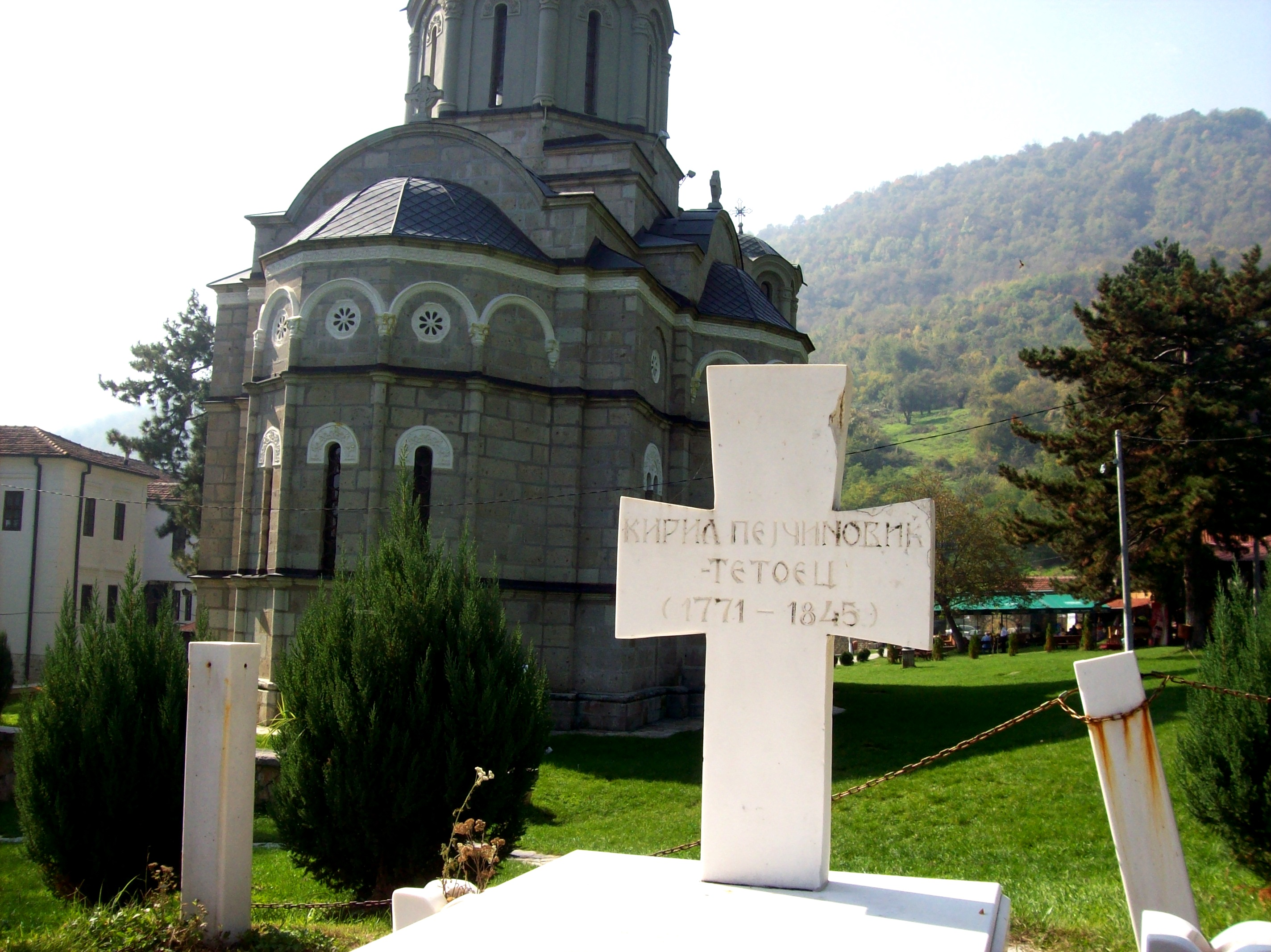 The tomb of writer and enlightener Kiril Peychinovich in Lešok, Republic of Macedonia.